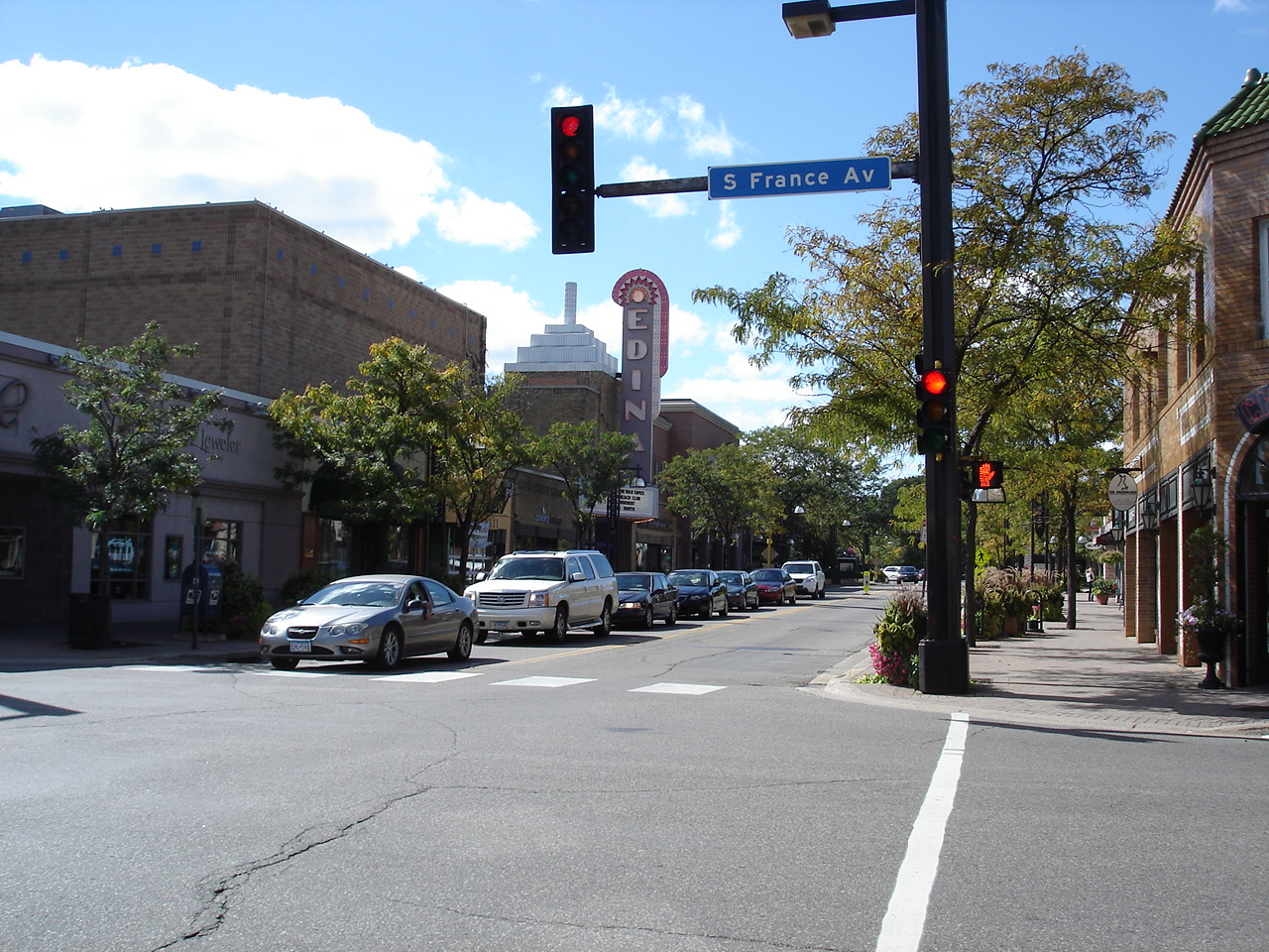 France Avenue